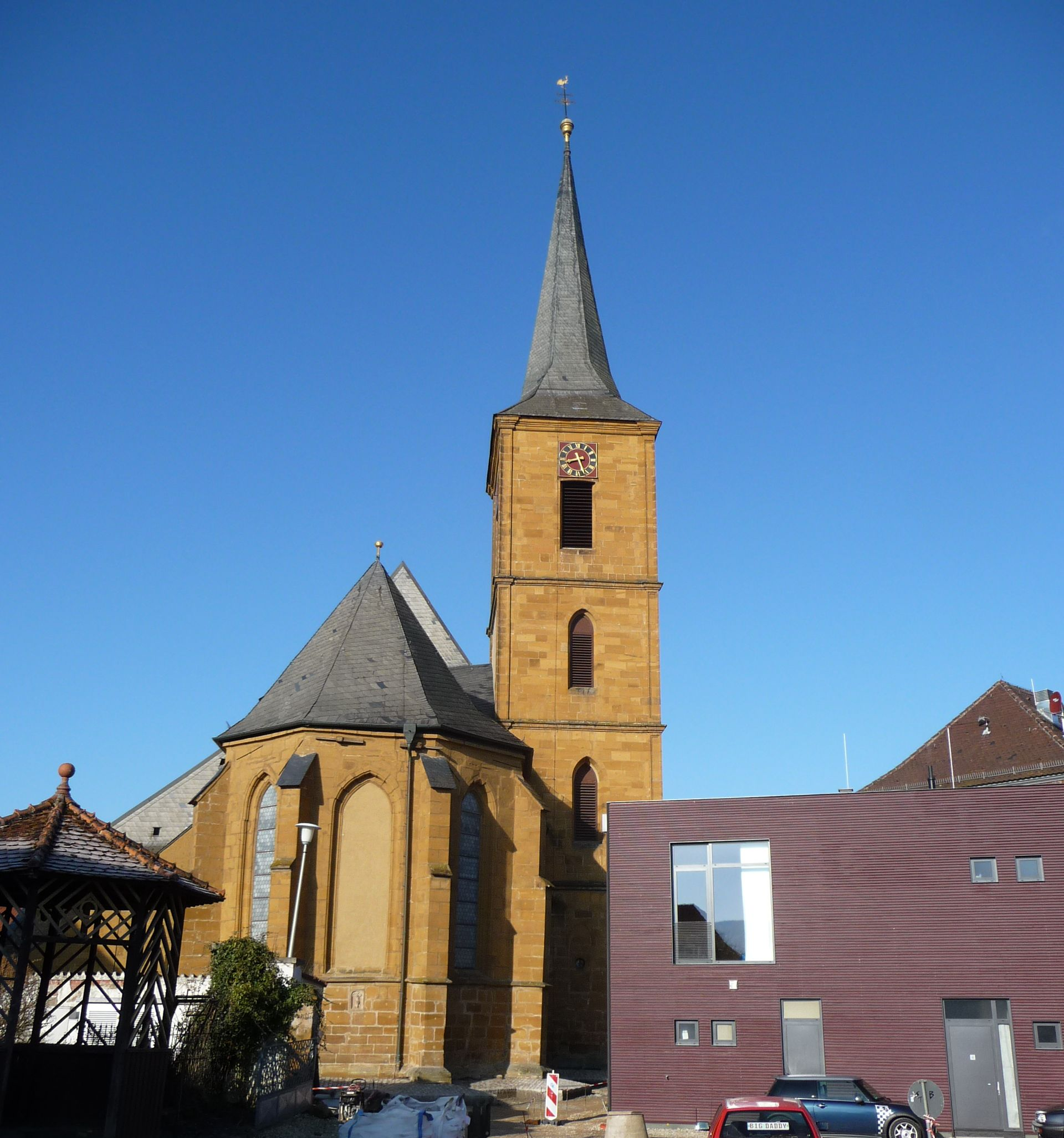 Sankt Kilian (Scheßlitz)